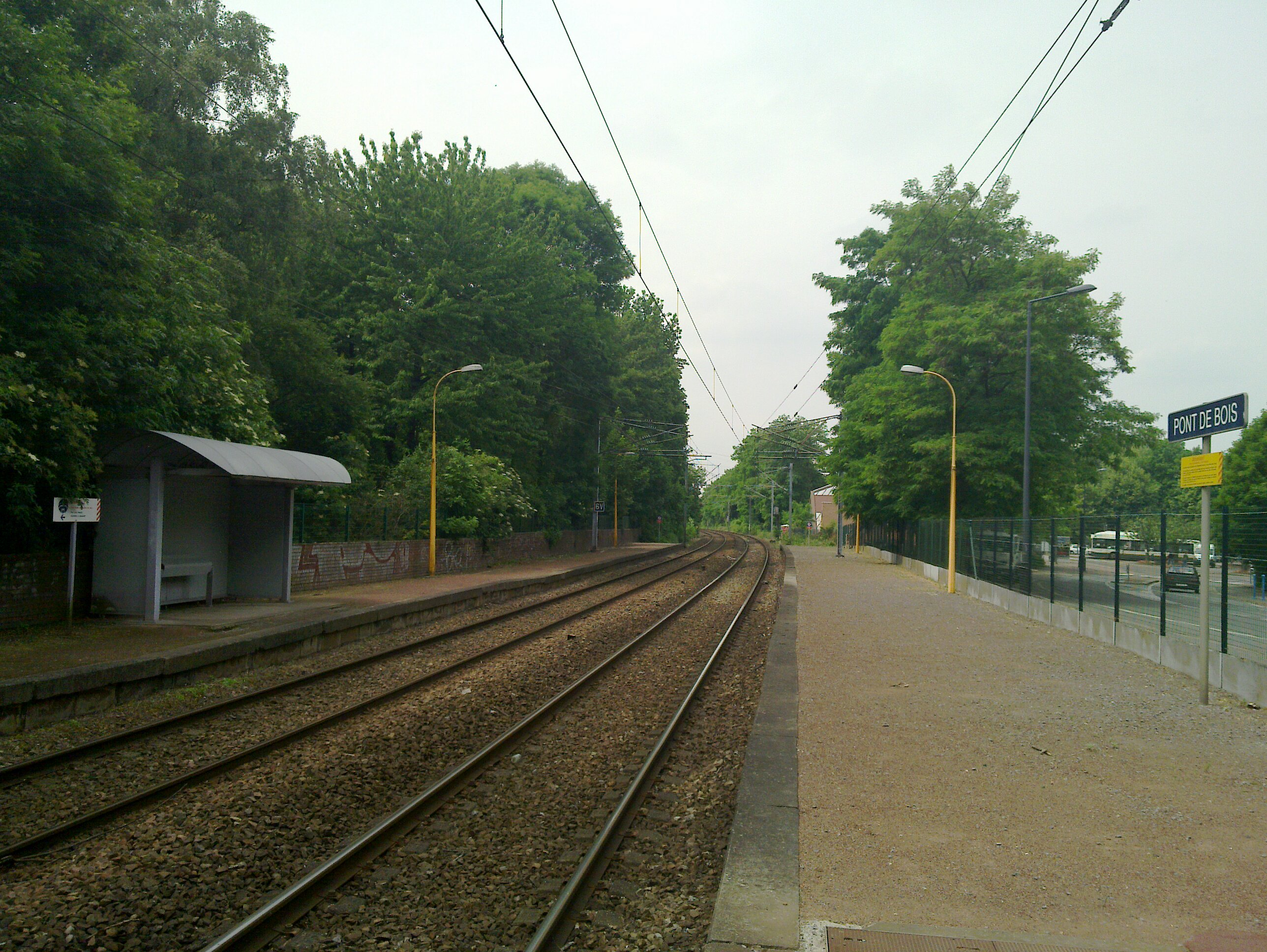 Pont-de-Bois railway station in Villeneuve d'Ascq, east view.